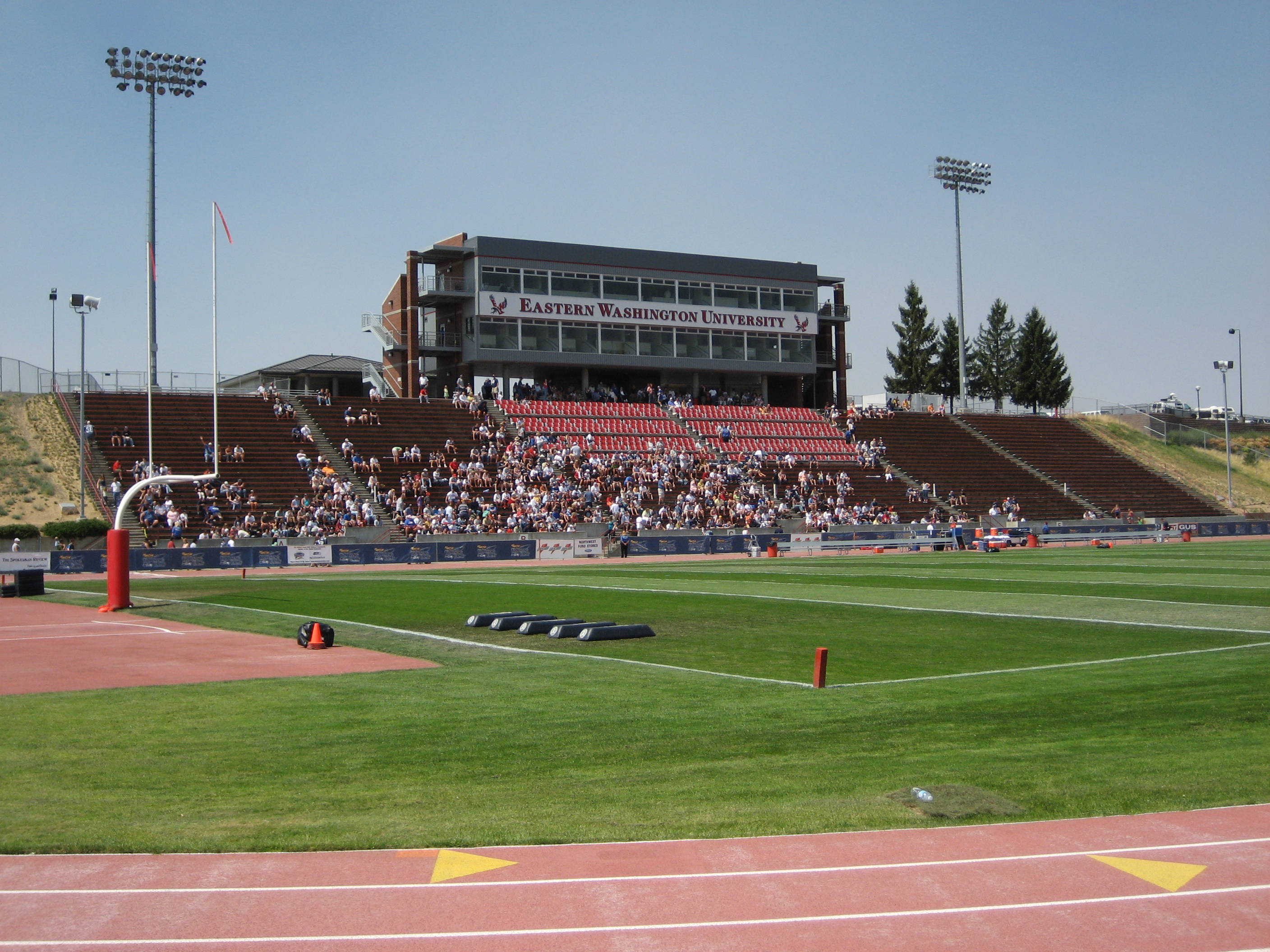 Picture of Seahawks Practice Scrimage at Eastern Washington University, Cheney Washington. Stands begin to fill for the Seahawks team scrimmage.